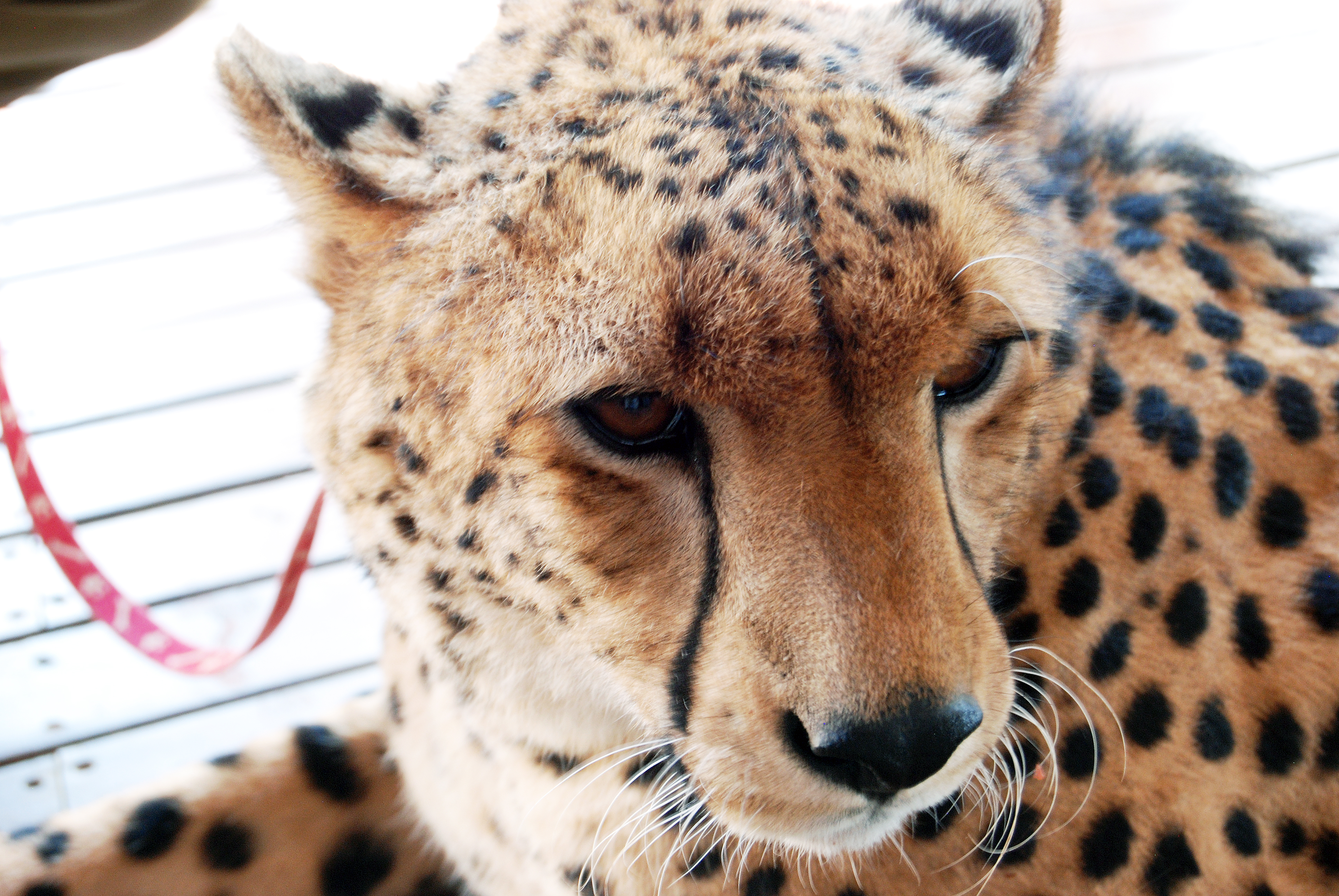 / Sylvester, a cheetah orphaned in April 2010 and destined for a life in the sanctuary